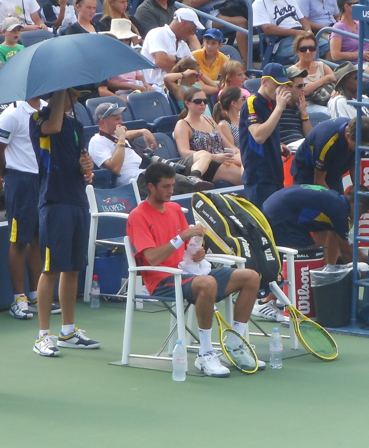 James Ward at the 2012 US Open